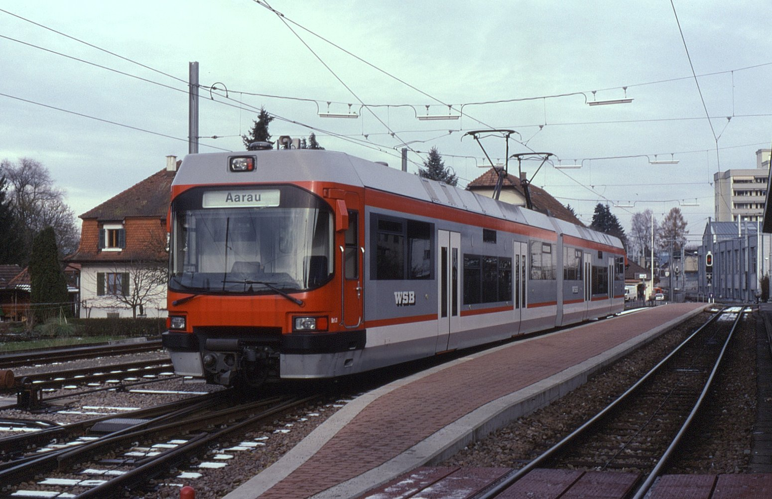 Wynental und Suhrentalbahn (WSB) Be4/4 railcar no. 23 seen at Schöftland on 6 December 1999 having arrived on train 430, 11:27 Aarau to Schöftland. This system is metre gauge, 750V dc.